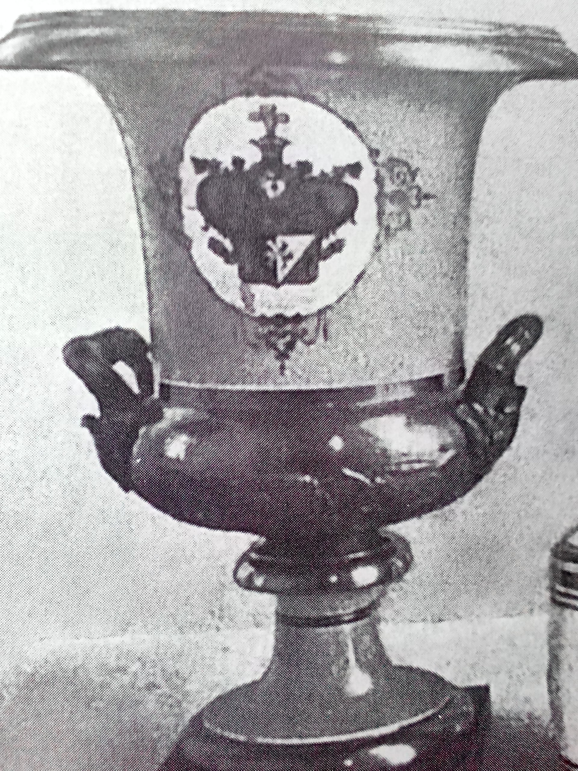 A photocopy of the illustration from the book "Ancient Manors of the Kharkov Province" (Lukomsky, 1917). The photo was taken in 1914. Coat of arms of Kulikovsky on a vase in the estate of Alferov. The village of Bezdrik, Sumy county, Kharkov province